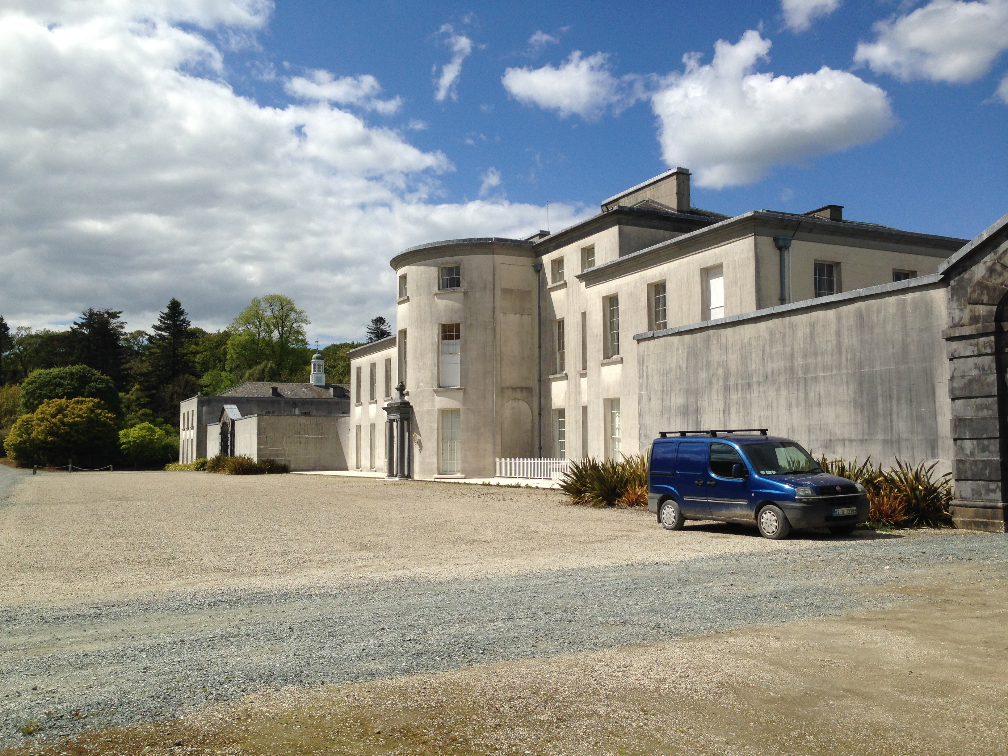 Mount Congreve House